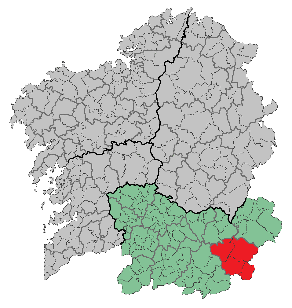 Region of Galicia (Spain)Based in: Image:Location of Betanzos.png Source: Designed by Leoplus. Original picture, designed by Caiser over a work made by Alyssalover.